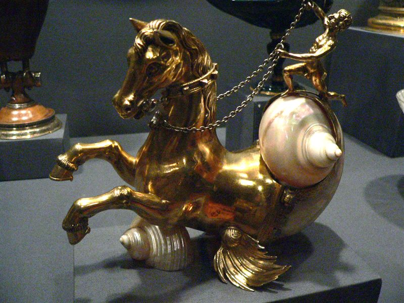 Seahorse Drinking Vessel Leipzig Germany 1590, Los Angeles County Museum of Art, California, USA